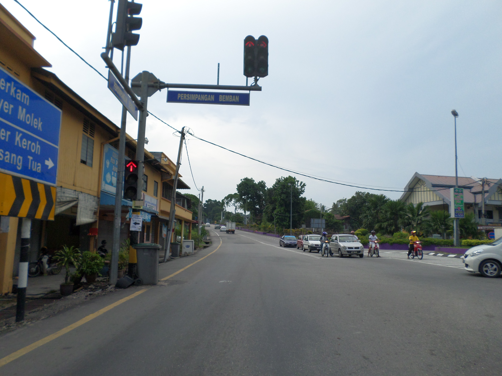 Bemban, Jasin, Melaka, MalaysiaBahasa Melayu: Bemban, Jasin, Melaka, Malaysia